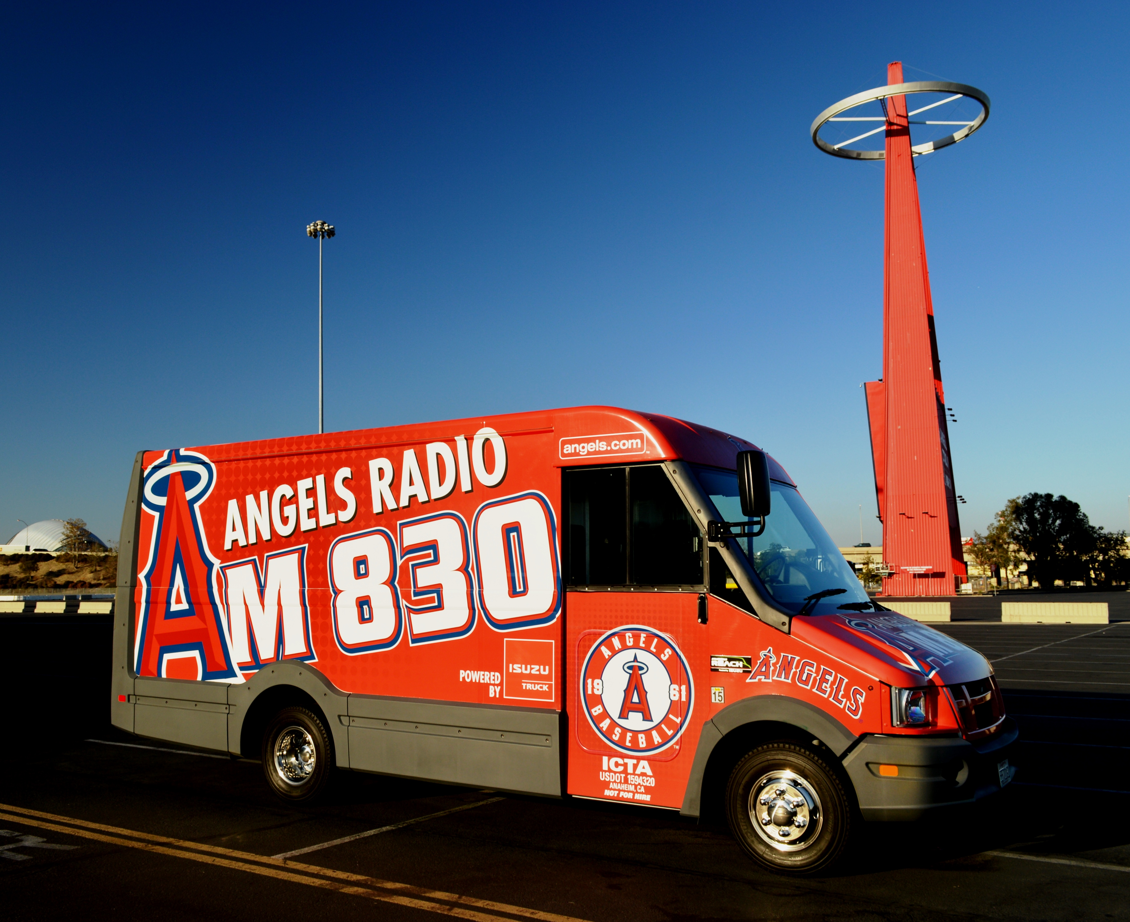 Angels Radio Reach, a utility van (not a broadcasting van) on loan to AM 830 KLAA (the flagship staion of the Angels Radio Network) from Isuzu Commercial Truck of America (ICTA) since the 2012 baseball season[1] - photographed in the parking lot of Angel Stadium of Anaheim.